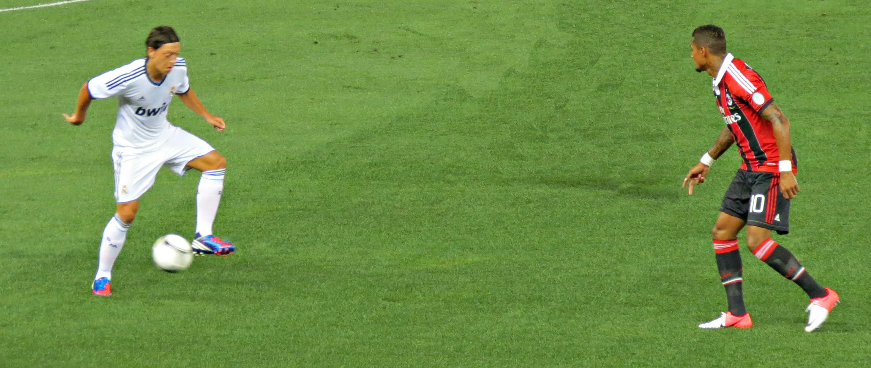 Mesut Özil (left) and Kevin-Prince Boateng (right) playing for Real Madrid and A.C. Milan (image has been retouched and edited by removing another football player from the center of the original image, so that Mesut Özil and Kevin-Prince Boateng are only shown in the image).